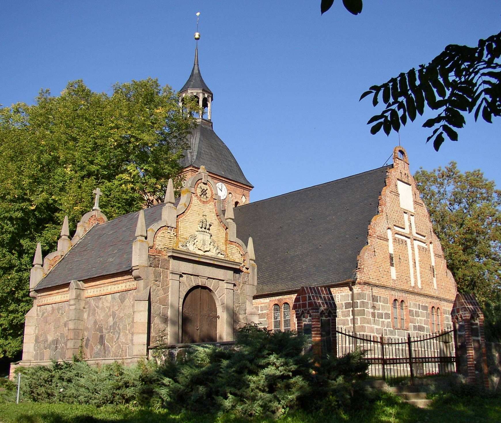 Church in Schorssow-Bristow in Mecklenburg-Western Pomerania, Germany